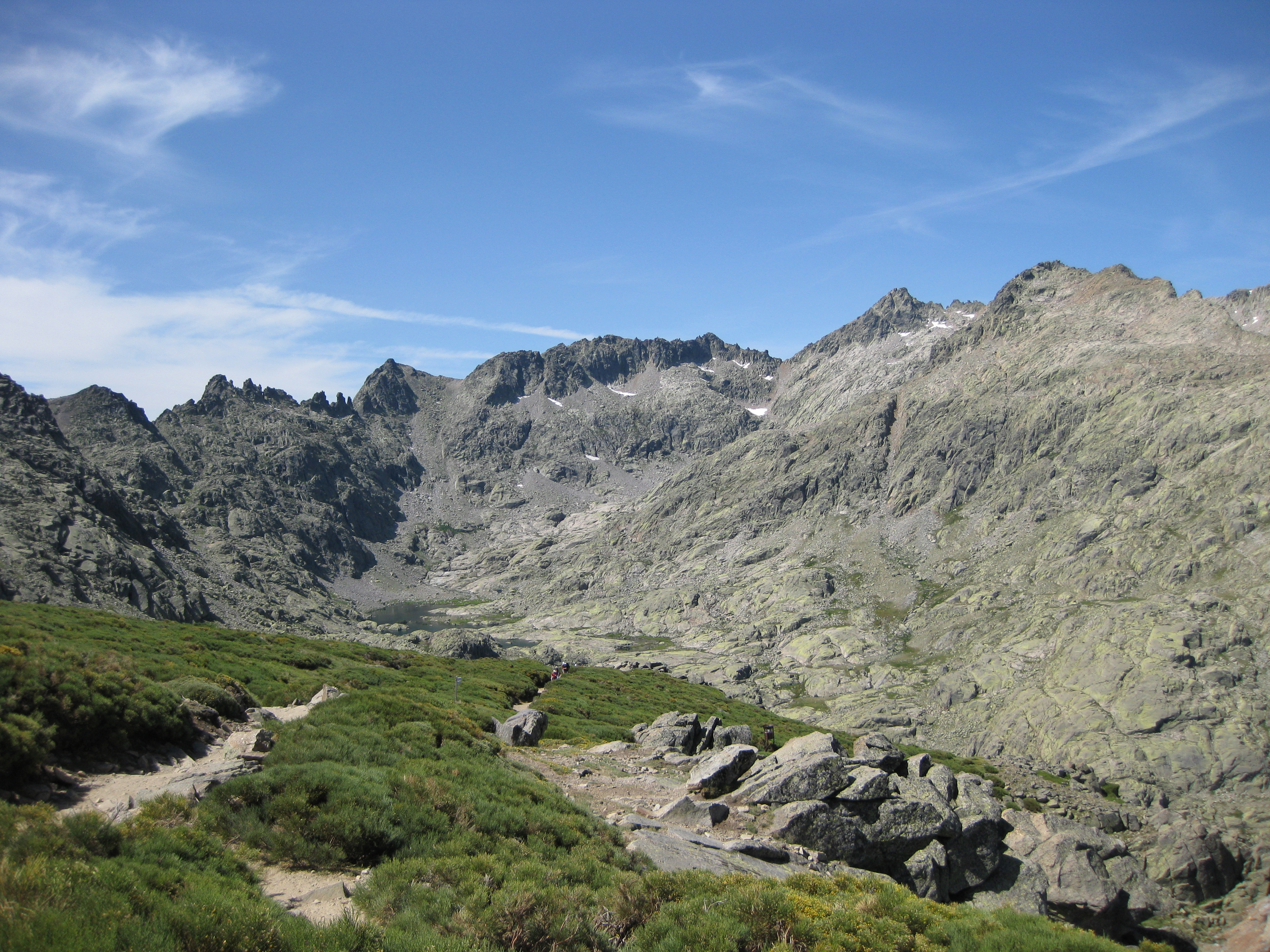 Circo de Gredos - July 2009, Sight from "Canto del Rayo"